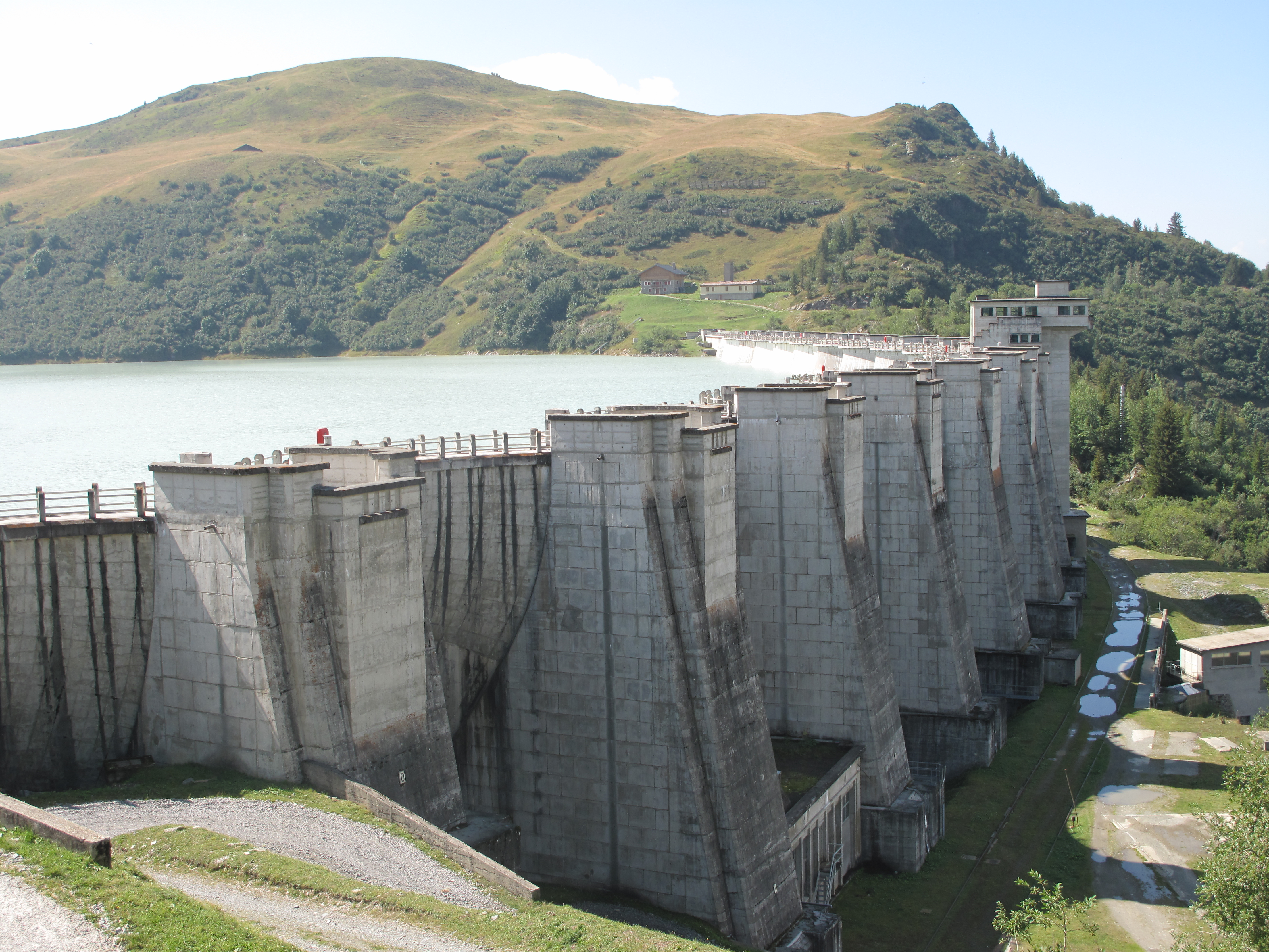 The dam of the lake of la Girotte, Hauteluce (Haute-Savoie, France).